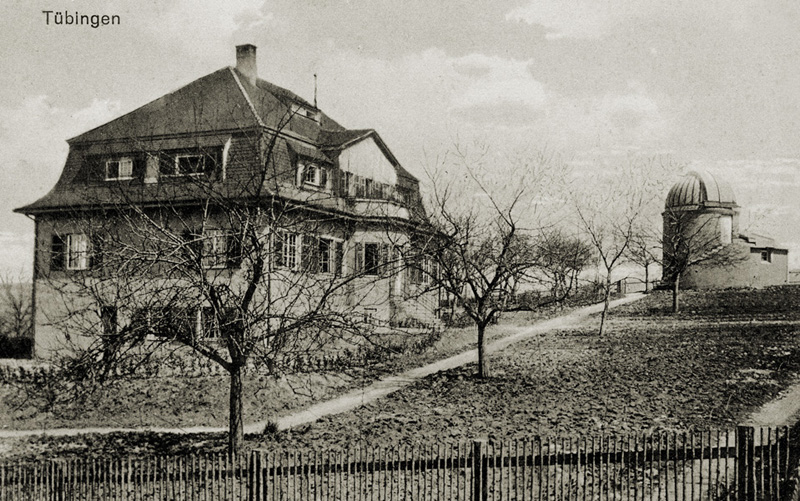 Privte astronomical observatory of Hans Rosenberg in Tübingen (Postcard)